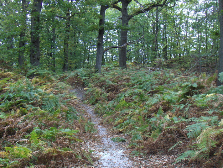 Underwood, Forêt d'Halatte, Aumont-en-Halatte (Oise)